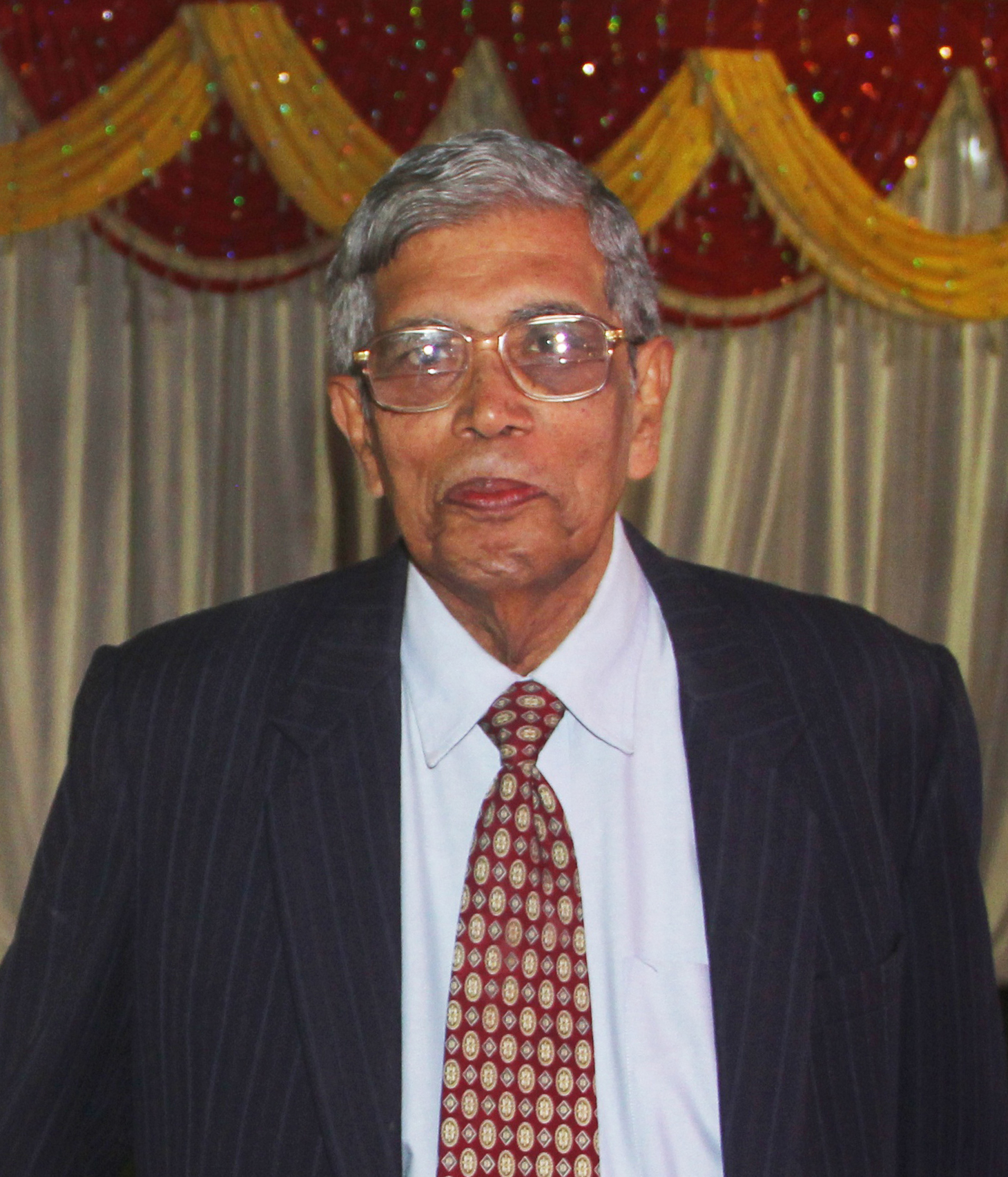 Sitakant Mahapatra is an Indian administrator and Odia-language poet from Odisha. ଓଡ଼ିଆ: ସୀତାକାନ୍ତ ମହାପାତ୍ର ଓଡ଼ିଶାରେ ଜନ୍ମିତ ଜଣେ ଭାରତୀୟ ପ୍ରଶାସକ ଓ ଓଡ଼ିଆ କବି ।